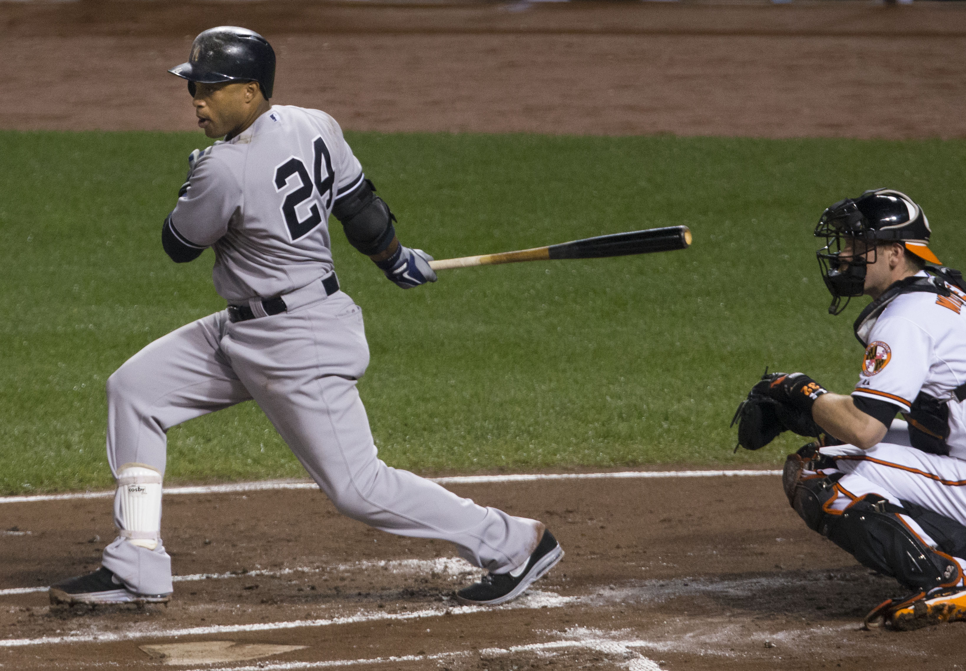 Robinson Cano batting against the Baltimore Orioles on September 12th 2013.